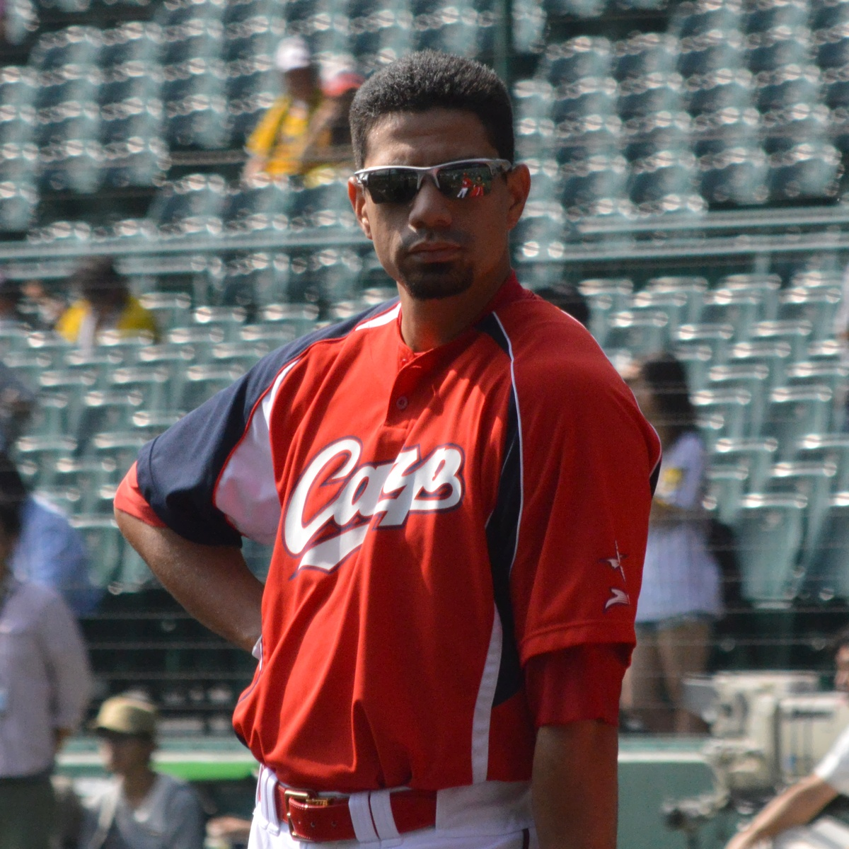 Kila Ka'aihue, infielder of the Hiroshima Toyo Carp, at Hanshin Koshien Stadium.